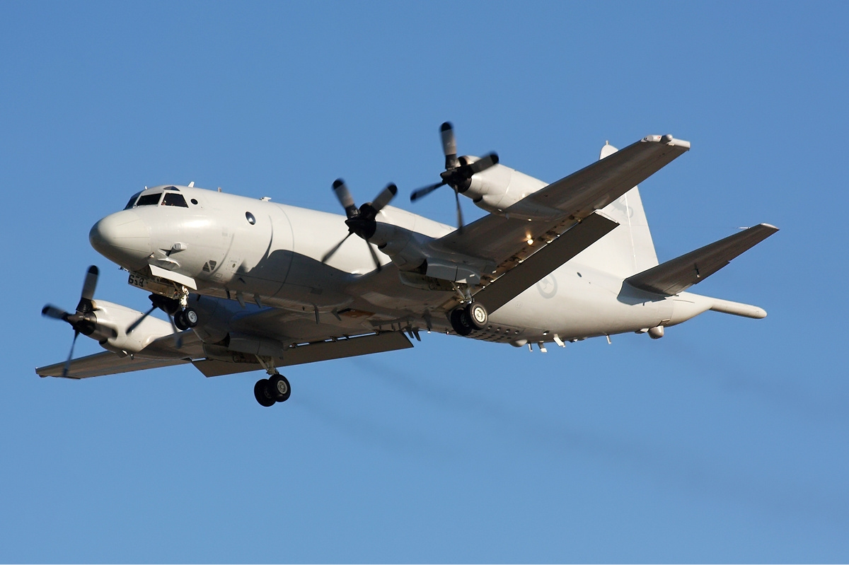 Royal Australian Air Force Lockheed AP-3C Orion